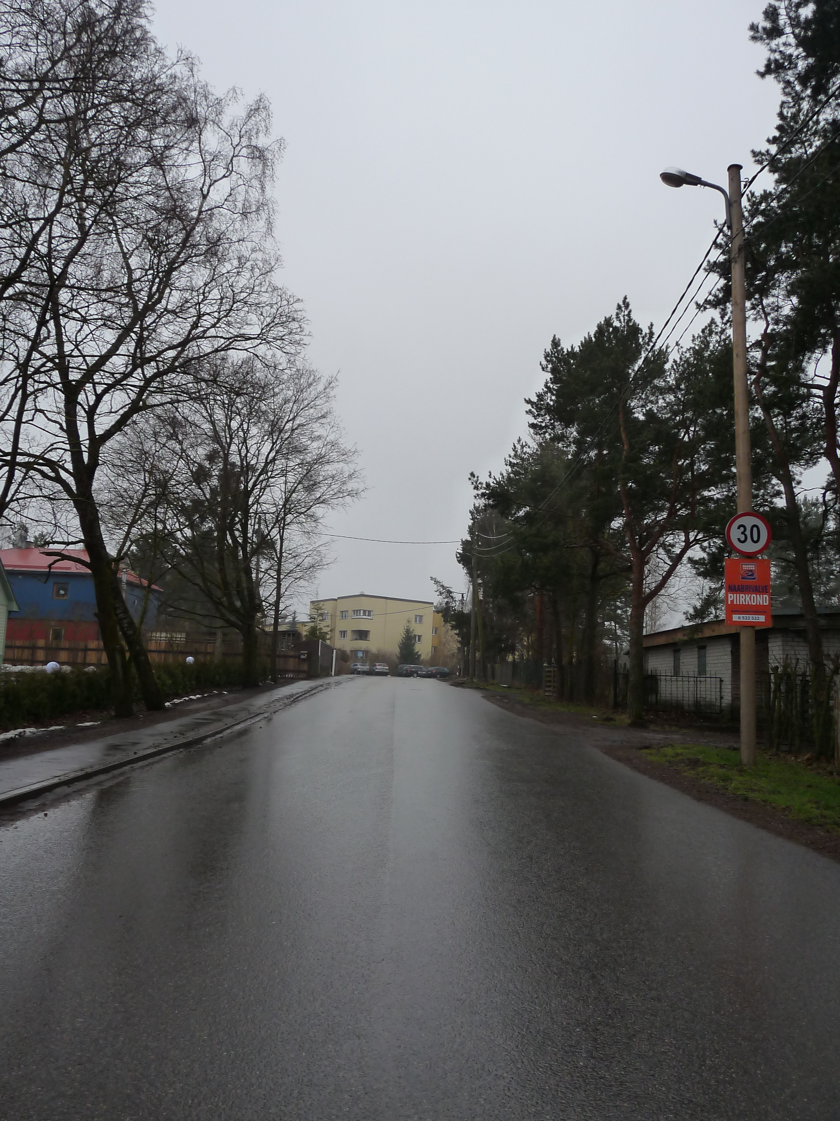 Kalmistu street in Tallinn, Estonia